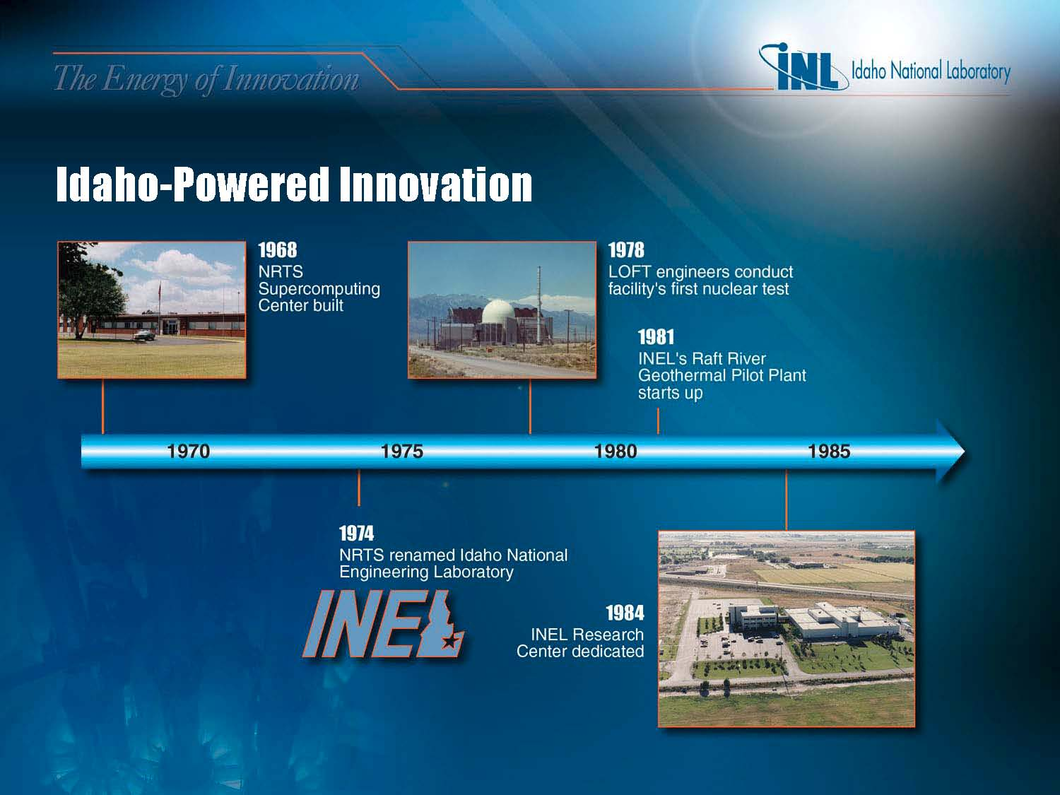 Idaho National Laboratory's history of innovation. Part 2.